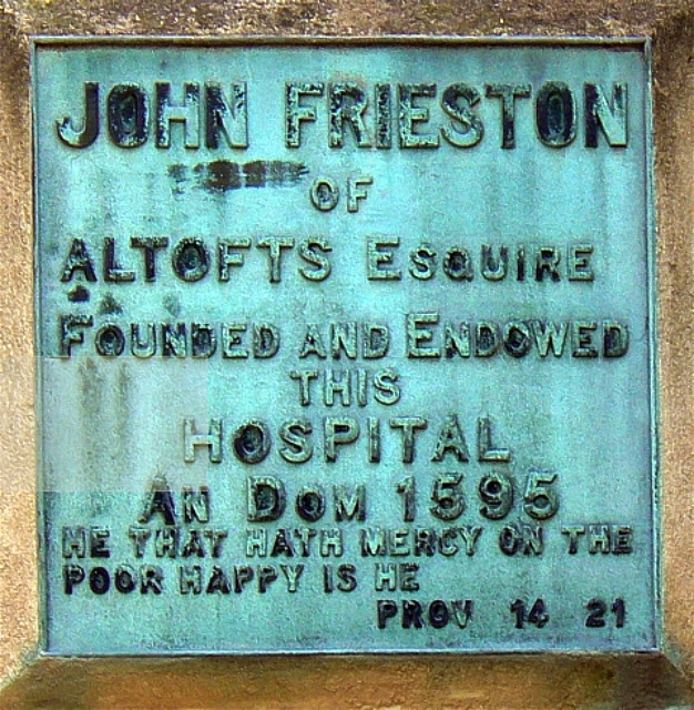 Kirkthorpe Conservation Village, Frieston's Hospital (4)